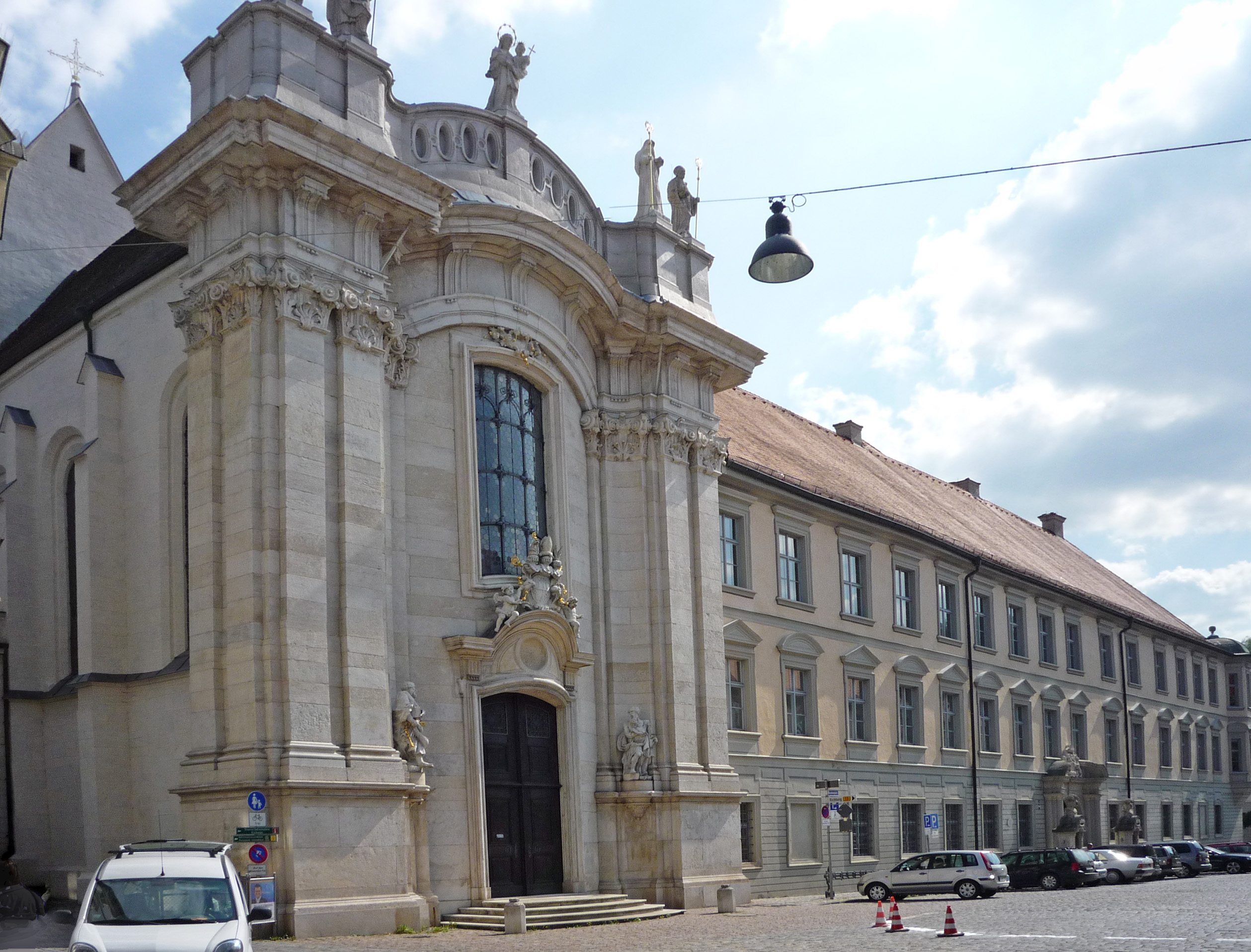 Eichstätt, Dome, baroque western side